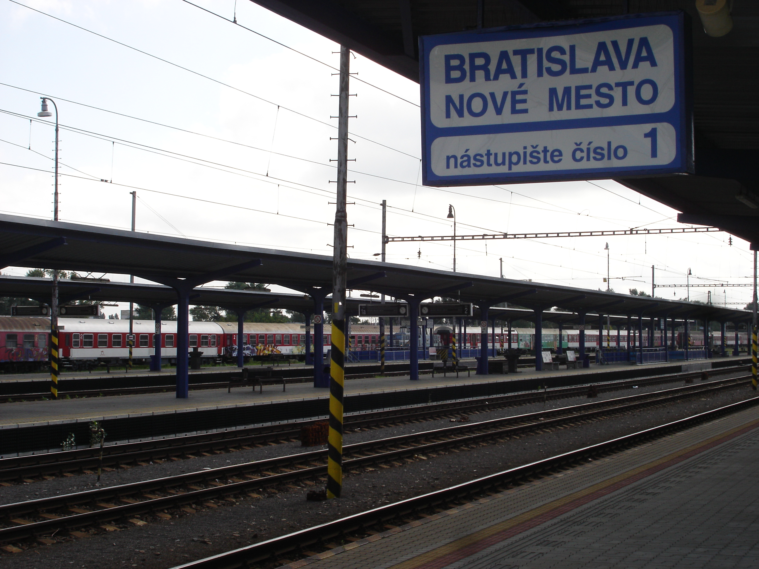 Railway station Bratislava Nove Mesto